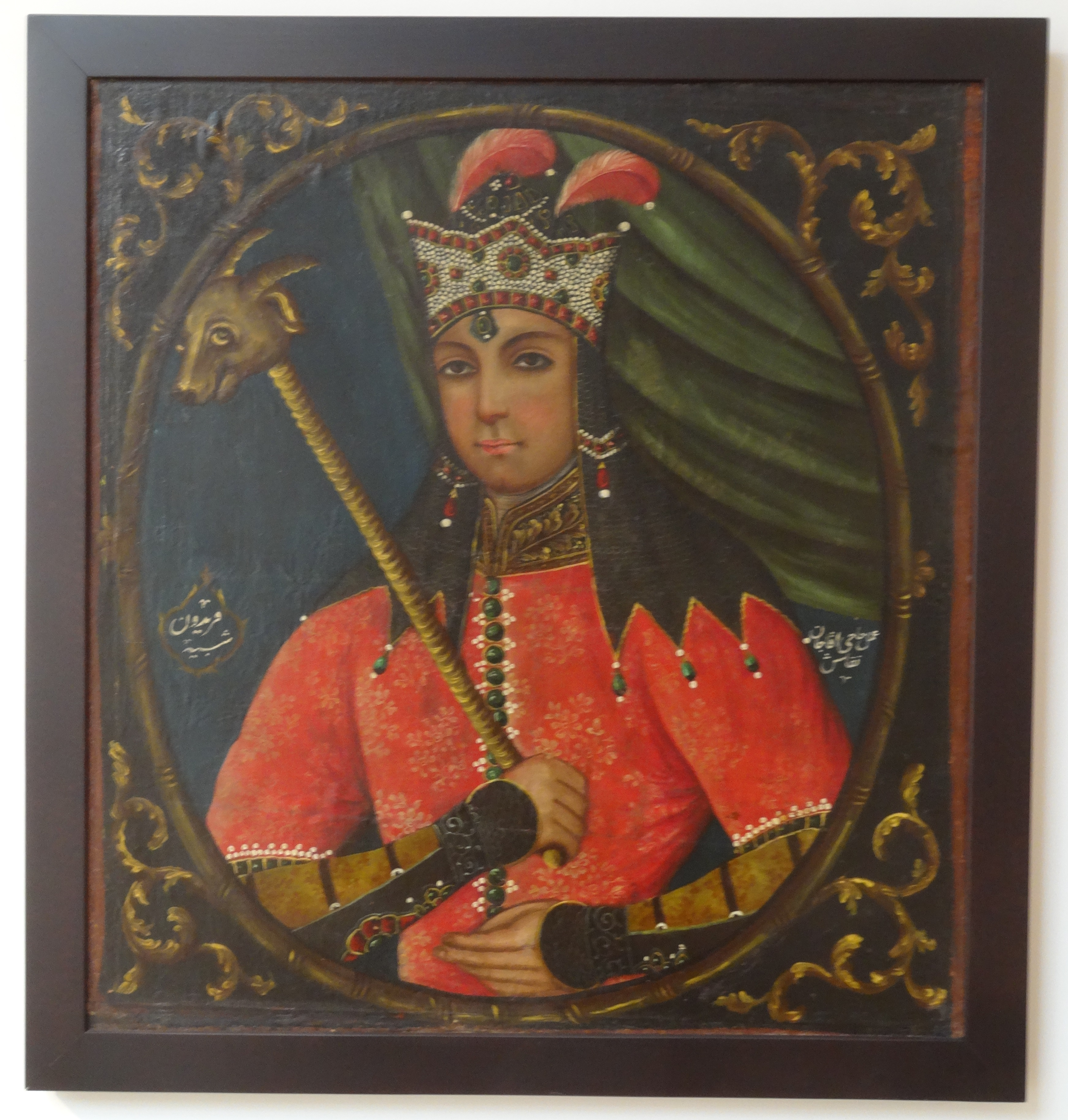 Faridun painted by Hajji Agha Jan. Persia early 19th century